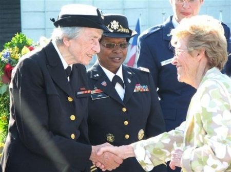 Retired Maj. Gen. Jeanne M. Holm, right, shakes hands with retired Navy Master Chief Petty Officer Anna Der-Vartanian during a Memorial Day ceremony held at the Women in Military Service for America Memorial, Arlington National Cemetery, Arlington, Va., May 26, 2008. Der-Vartanian, who entered the military in 1943, one year after Holm, became the Navy's first woman master chief petty officer, the highest enlisted grade.